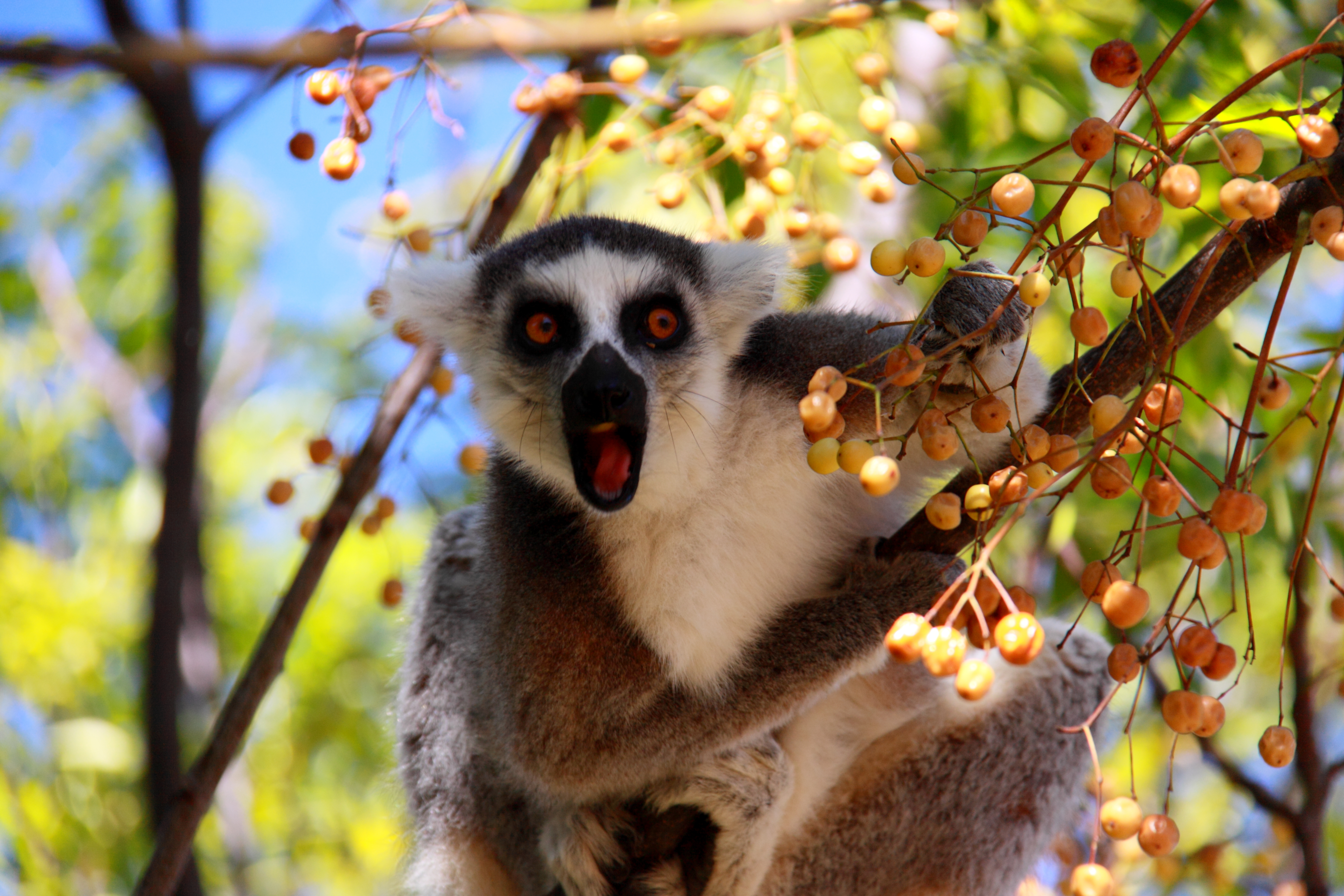 Lemur catta, Ranomafana National Park, 250 km south of Antananarivo, Madagascar